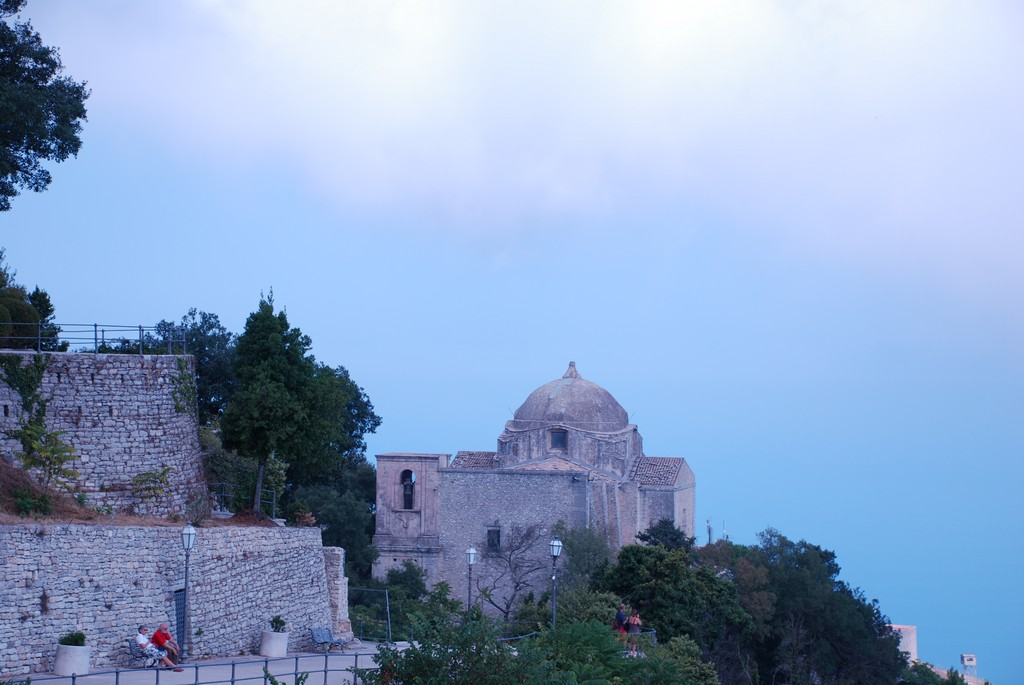 From the shape of the roof it's called in local dialect "Chiesa della minna". xD